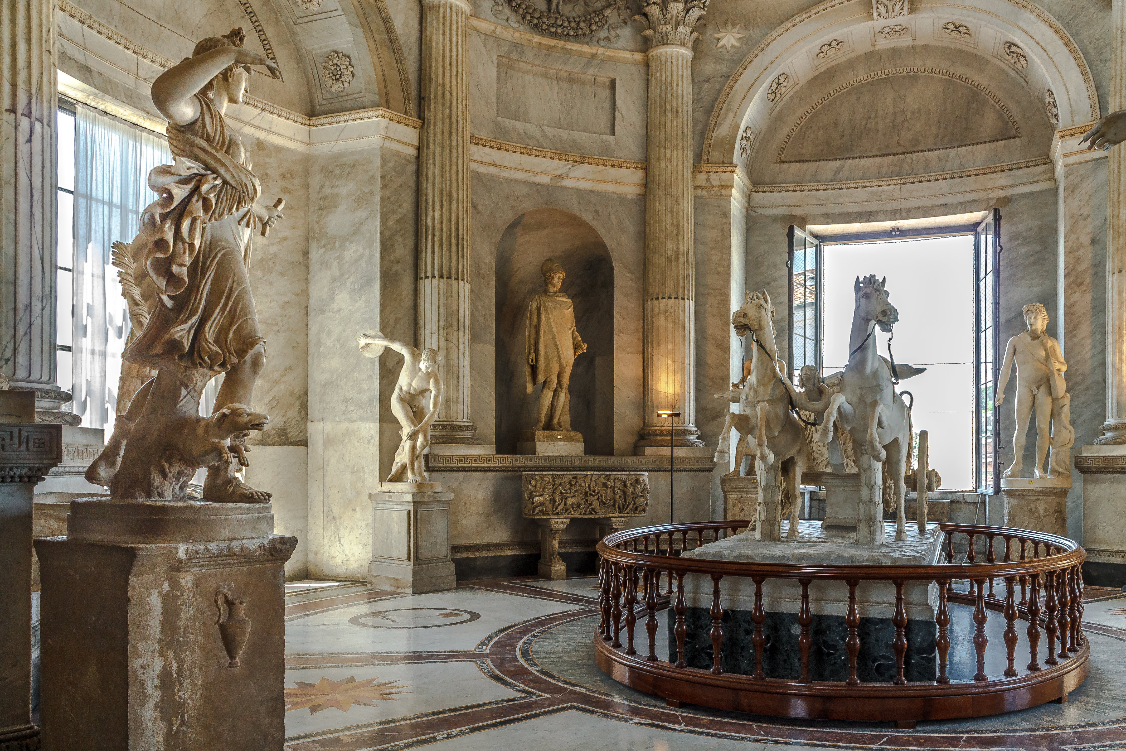 Sala della Biga